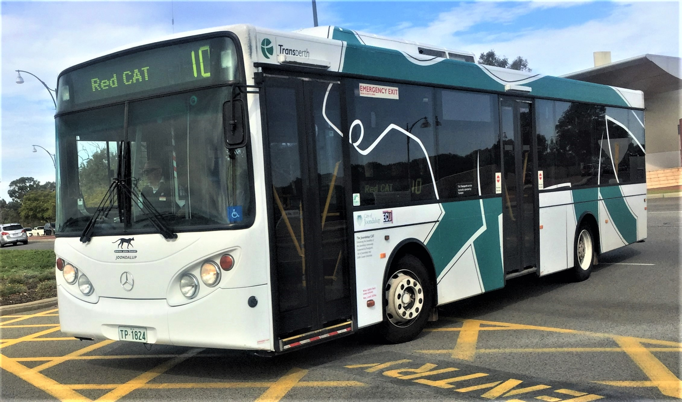 Joondalup CAT 1824 seen at Joondalup Station